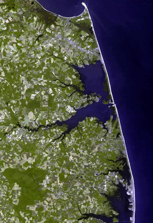 The raw satellite imagery shown in these images was obtain from NASA and/or the US Geological Survey. Post-processing and production by